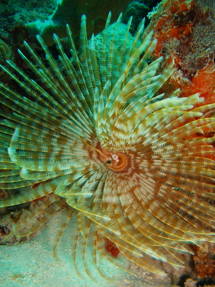 Spirographis Sabella